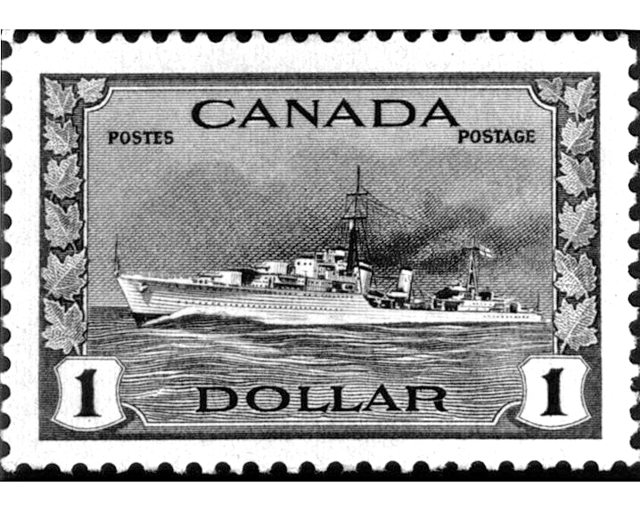 Royal Canadian Navy Tribal class destroyer as depicted on a en:1944 stamp.